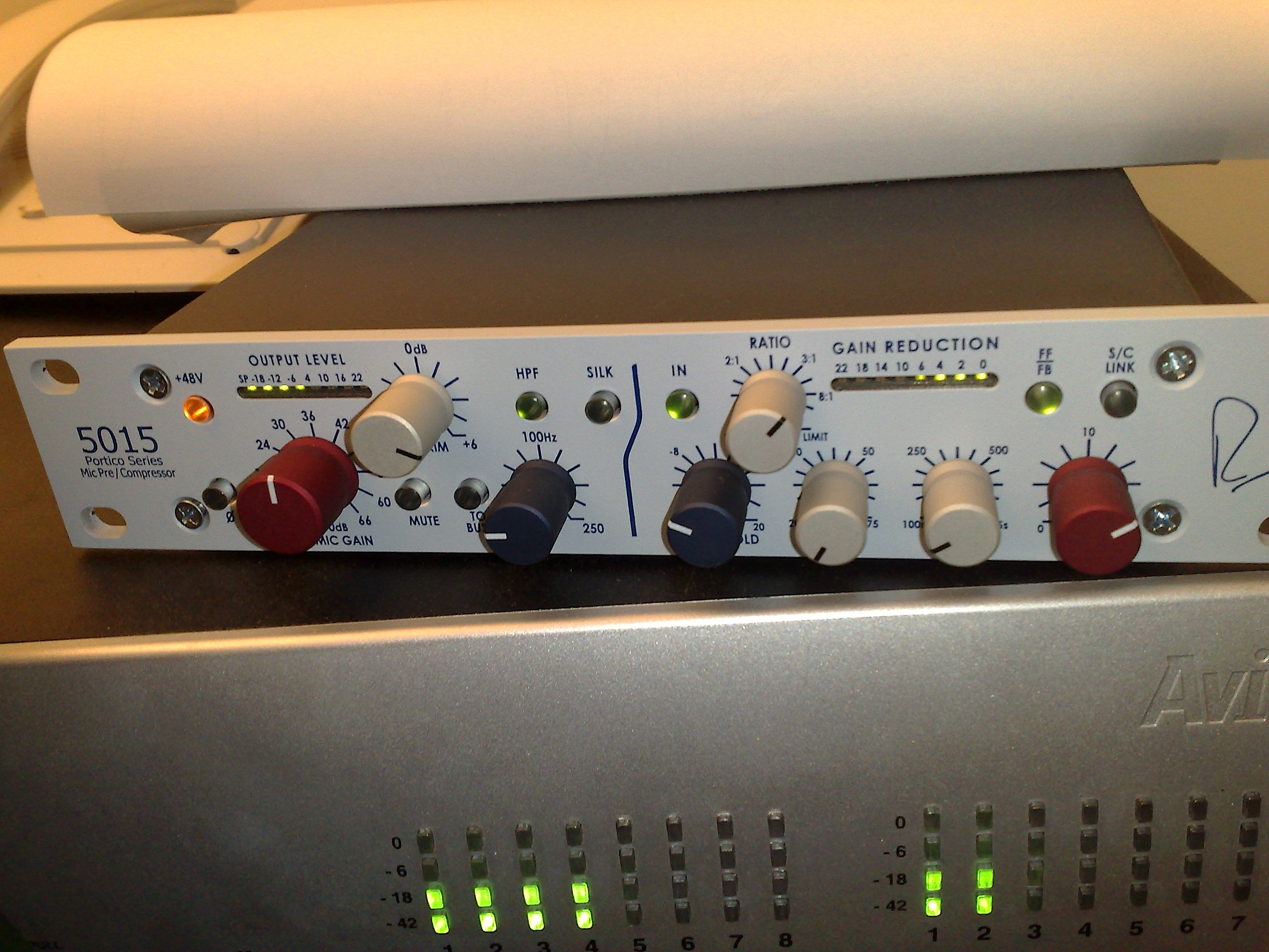 Rupert Neve Designs Portico 5015 Mic Pre Compressor. Doesn't sound half bad, really.